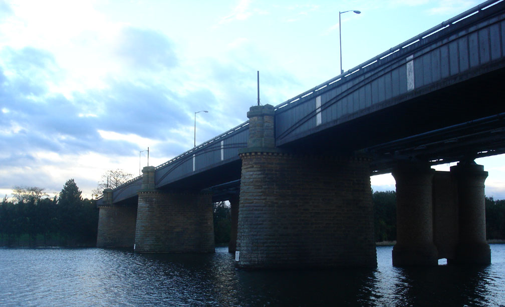 Victoria Bridge in Penrith over the Nepean River, Sydney, Australia. Taken September 2006 by me.